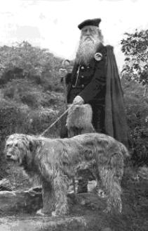 Pierce Charles de Lacy O'Mahony shortly before his death in 1930